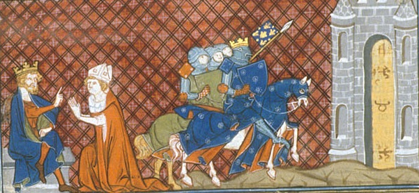 Siège de Clermont en 1122 par les troupes françaises ; Louis VI le Gros reçoit l'hommage de l'évêque Aimeric.